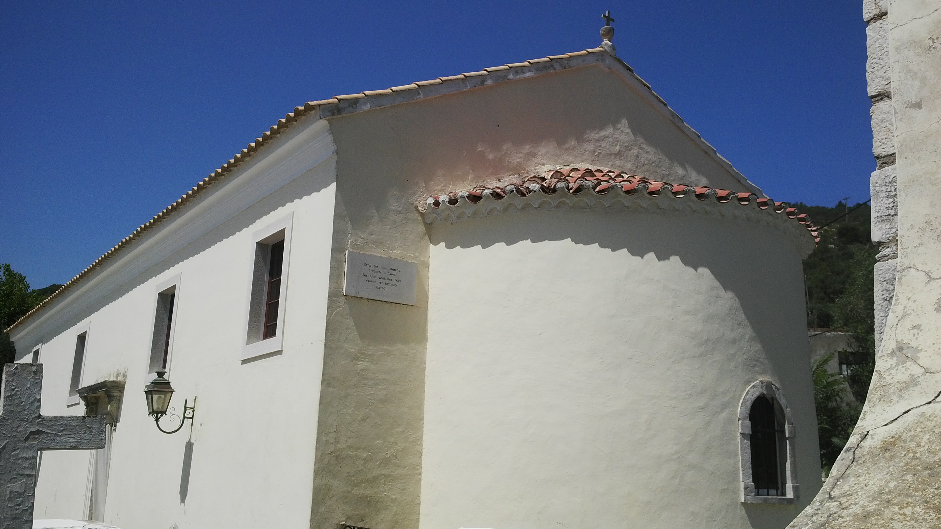 Agion Apostolon church at Gaios of Paxos island Greece, east side showing a sign informing that Saint Gaios is buried in the church